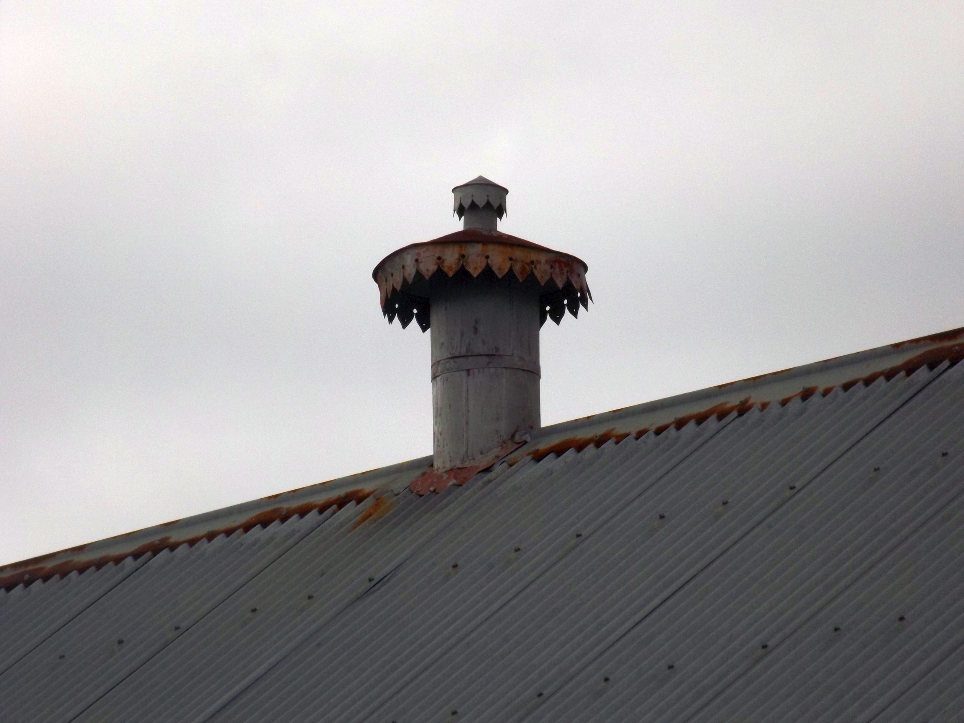 Photo of a ridge ventilator on Pine Rivers Shire Hall at Strathpine, Moreton Bay Region, Queensland, Australia.